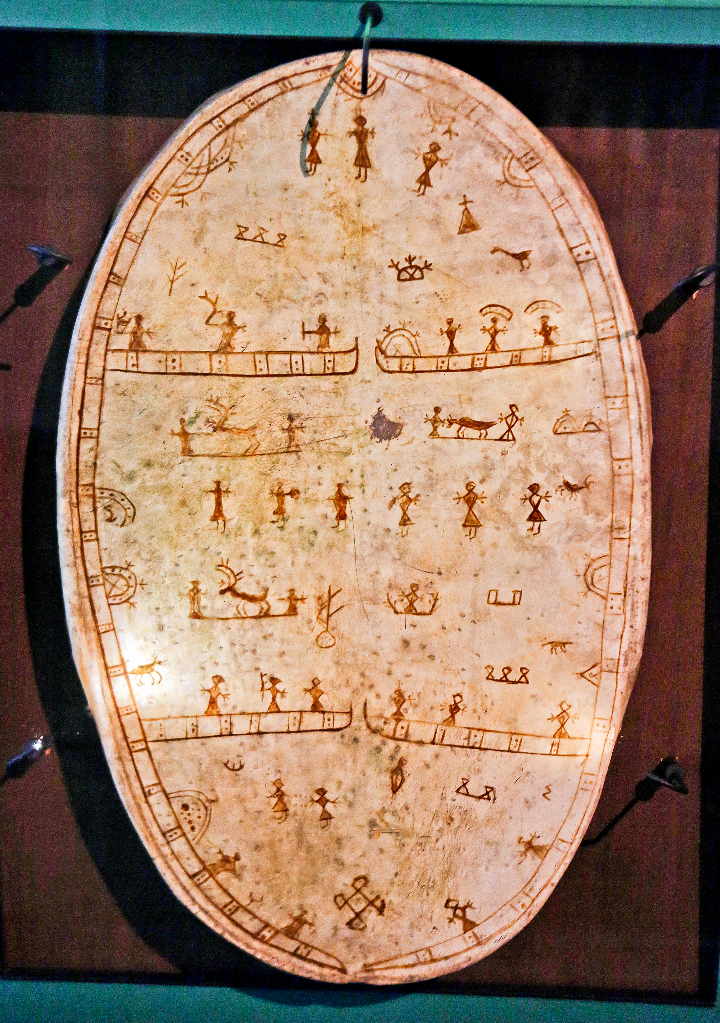 Sámi drum at Siida museum, dedicated to the history and culture of the Sámi people, in Inari, municipality of Inari, Finland.